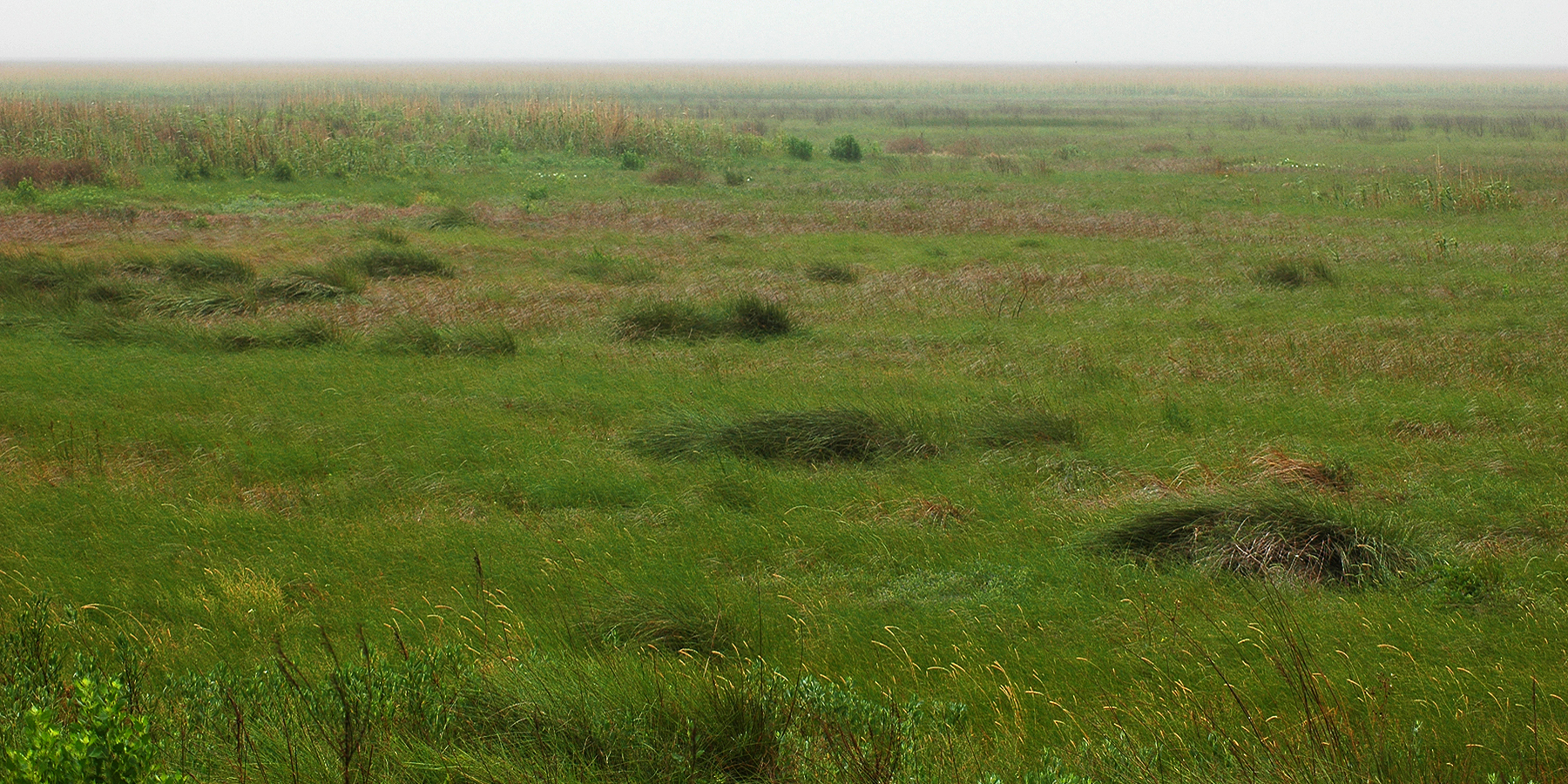 McFaddin National Wildlife Refuge, showing Gulf coastal grassland and prairie habitat. Jefferson County, Texas, USA (29.6924°N, 94.1527°W, 1 m. elev.). Photographed on 30 April 2010. William L. Farr